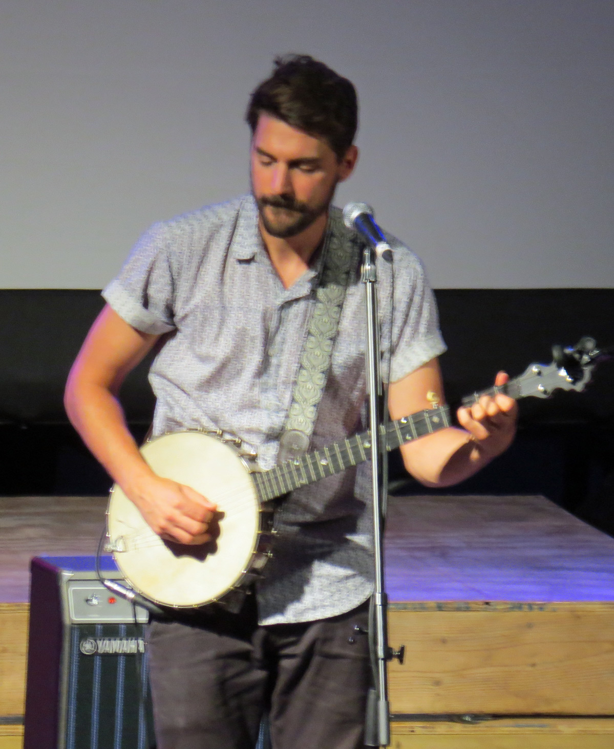 Tim Baker performs on the main stage to a large crowd at the Peterborough Folk Festival on August 17, 2019